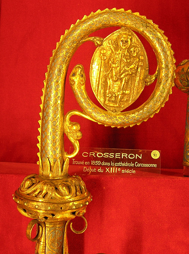 Crozier, early 13th century, museum of Cluny, France. It was found in 1859 in Carcassonne cathedral.